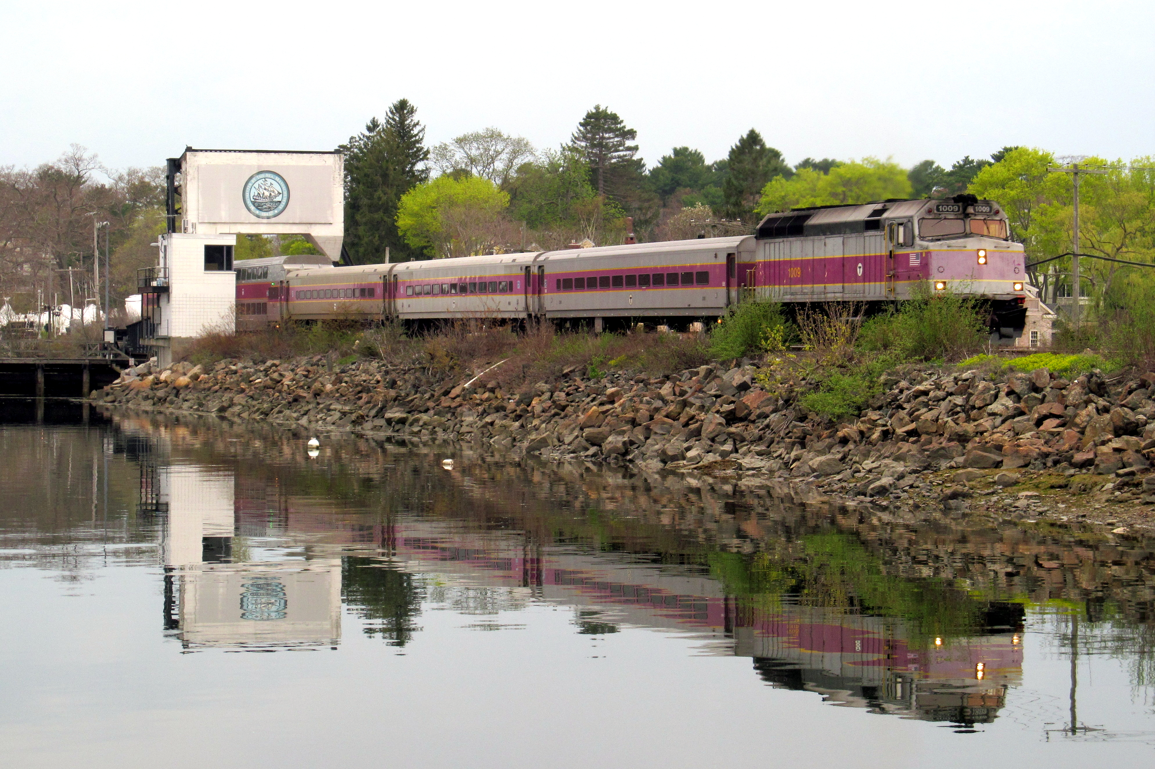 MBTA #1009 leads an outbound Newburyport/Rockport Line train over Manchester Draw in May 2014